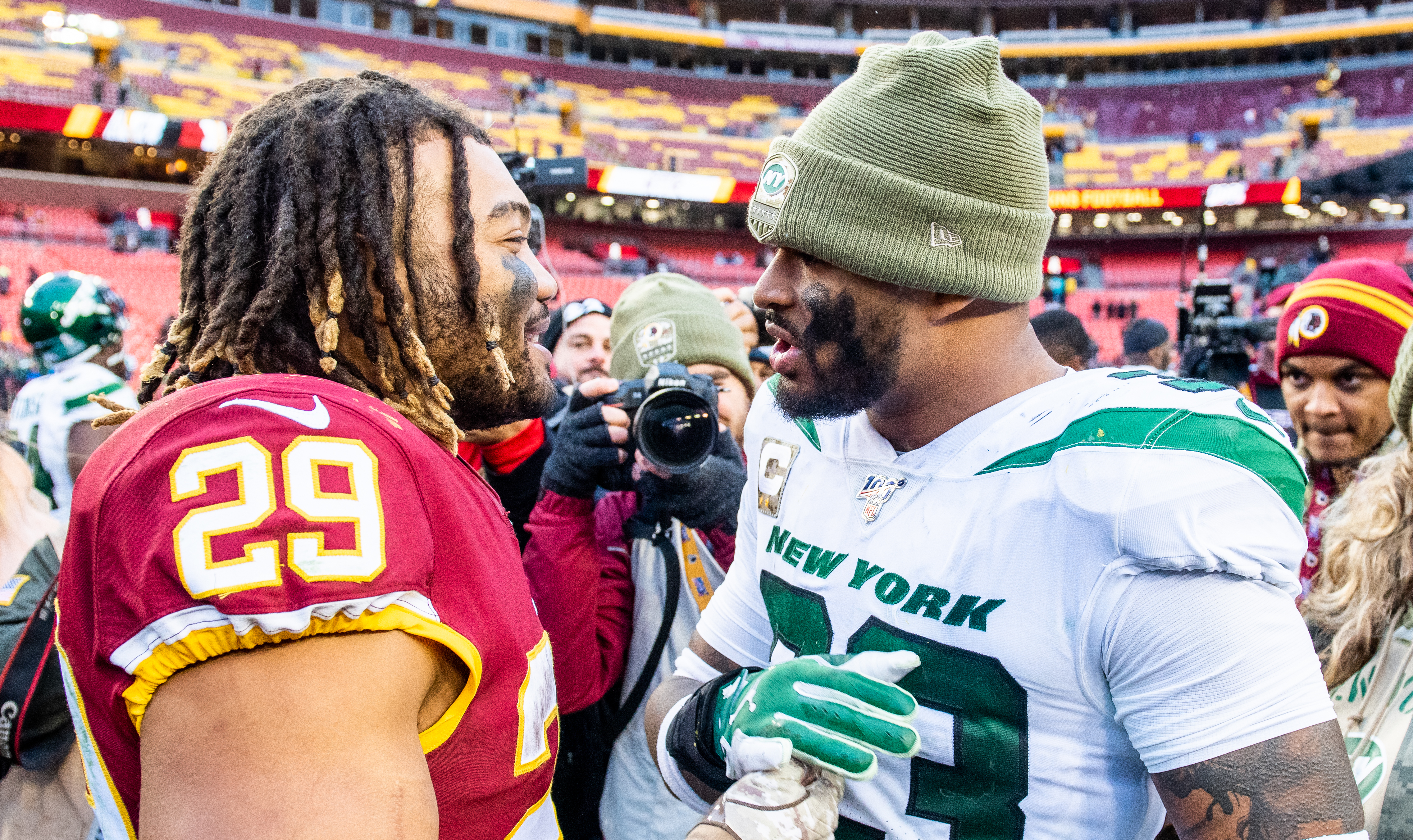 In 2019